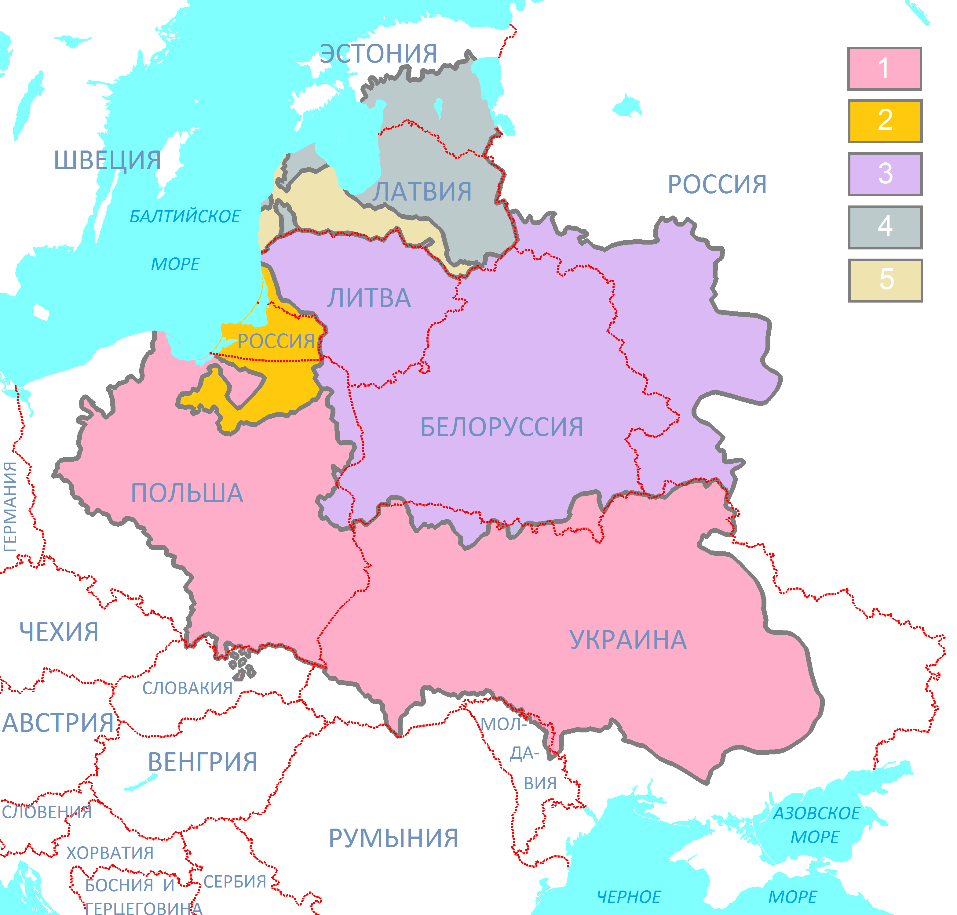 Polish-Lithuanian Commonwealth (1619) compared with today's borders (Polish names) Legend: 1 - The Crown (Kingdom of Poland), 2 - Duchy of Prussia - Polish fief, 3 - Grand Duchy of Lithuania, 4 - Livonia, 5 - Duchy of Courland - Livonian fief.